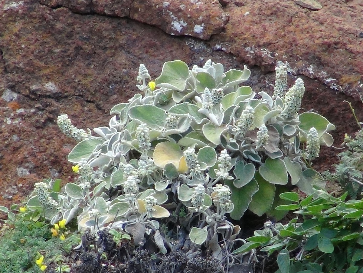 Sideritis cretica. W Tenerife, Punta de Lerma (W of Punta del Fraile), rocks above coastal street, ca. 100 m above sea level.